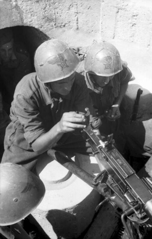 Information added by Wikimedia users.